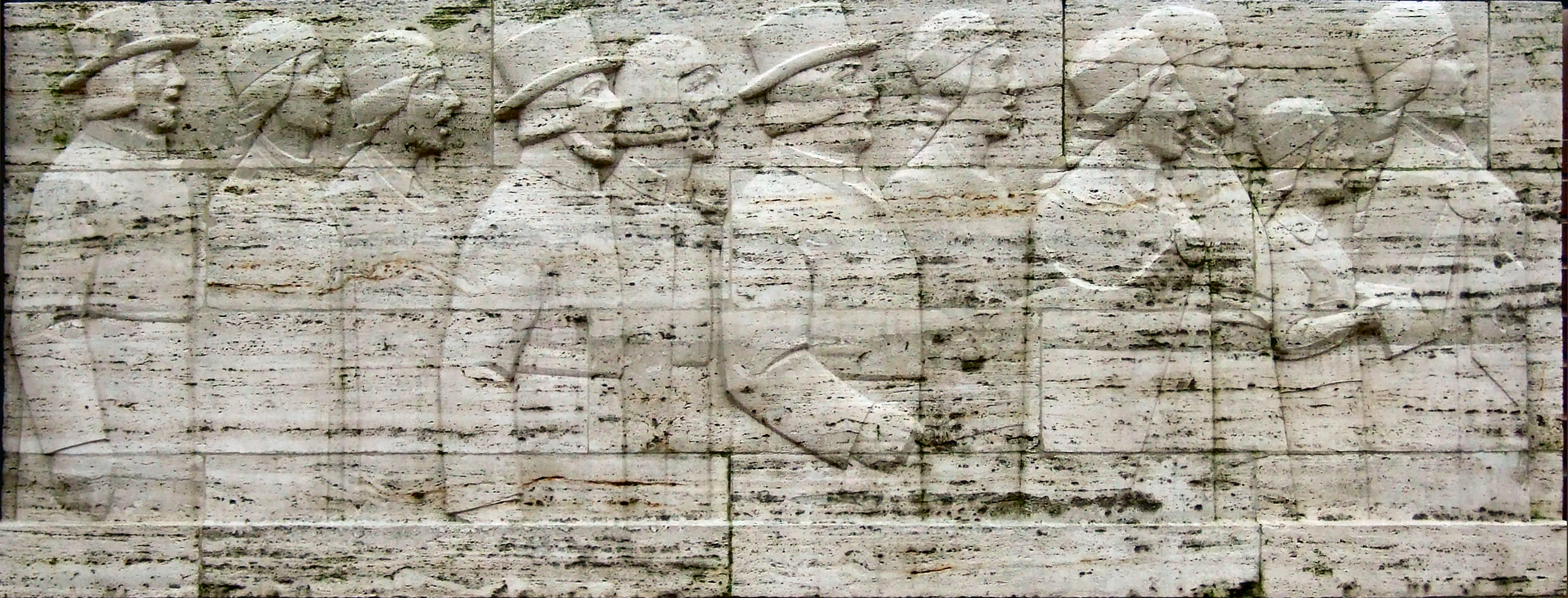 Freedom Monument, Riga, Latvia, Latvian People-Singers bas-relief, image has been perspective and distortion corrected to flatten for reference representation. Riga, Latvia.